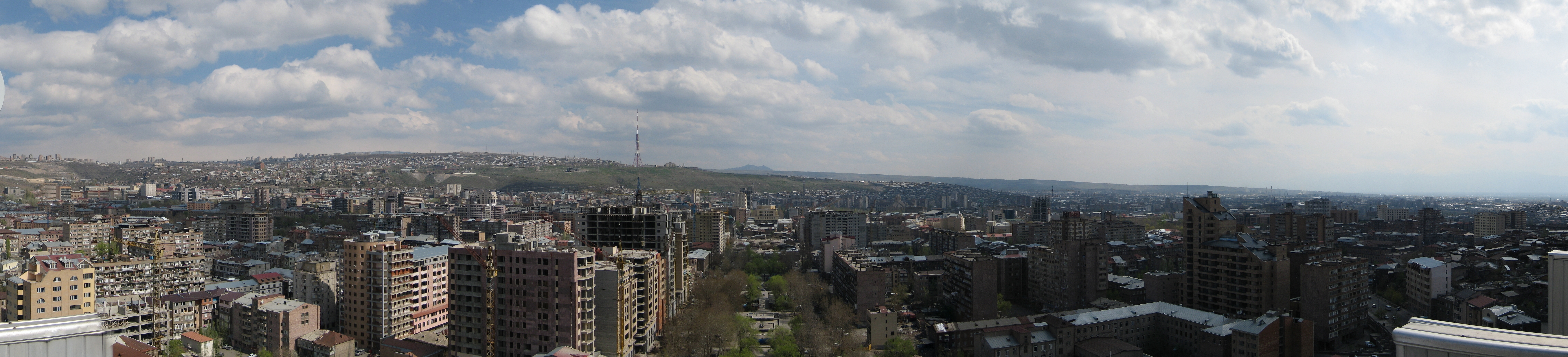 Panorama of Yerevan's Kentron District from the Hye Post building.